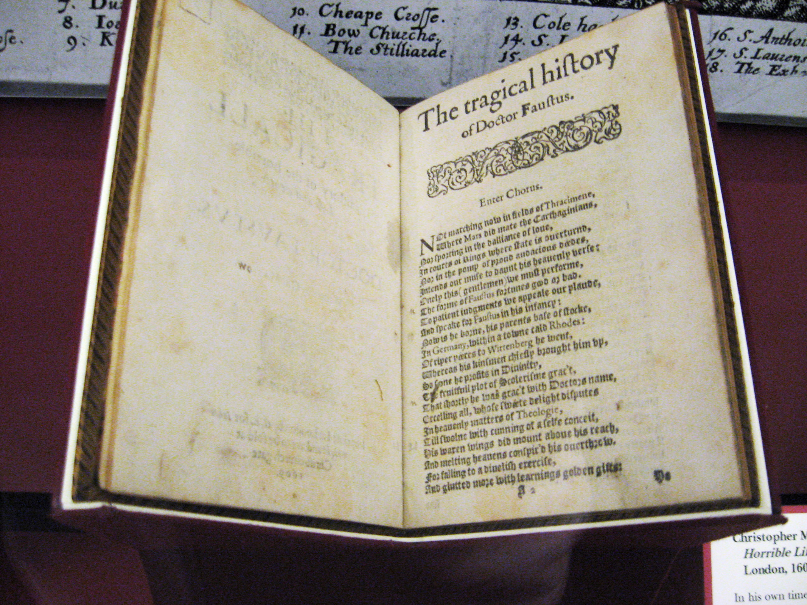 Faustus Manuscript in the Huntington Library, San Marino